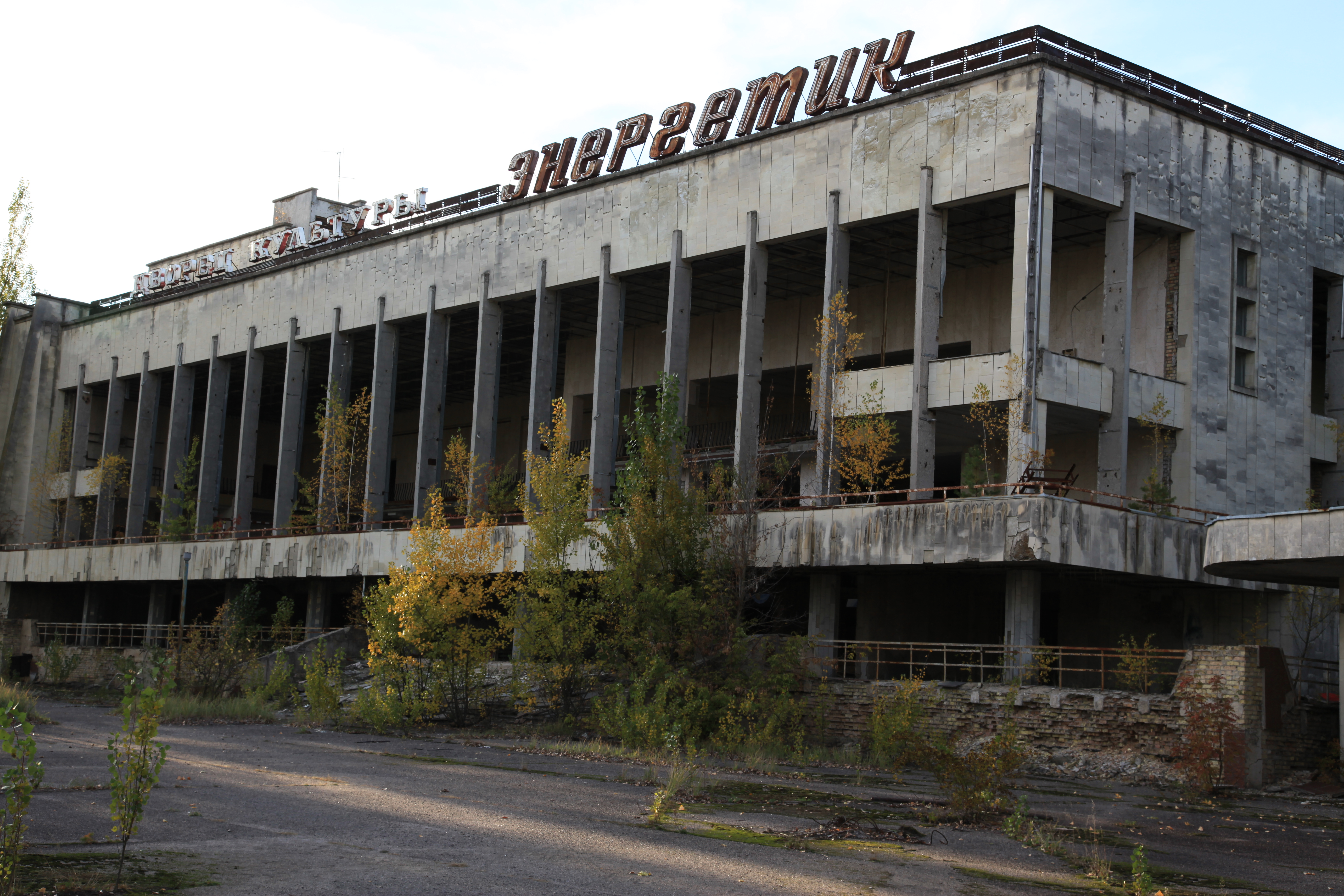 The Palace of Culture ‘Energetik’ on Lenin Square in Pripyat. Copyright: IAEA Imagebank Photo Credit: Dana Sacchetti/IAEA